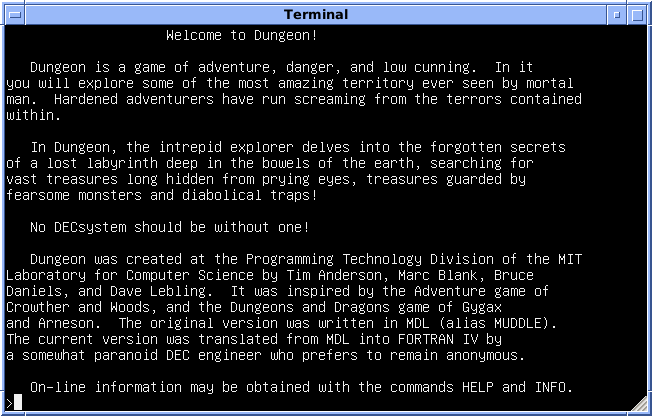 4.3 BSD from the University of Wisconsin, running in the SIMH VAX-11/780 simulator with 16MB memory. The system describes itself as "4.3 BSD UNIX" and "4.3+NFS", and it dates to around January 1987. This is the beginning of a game of Zork, in which the player finds an introductory leaflet in a mailbox.